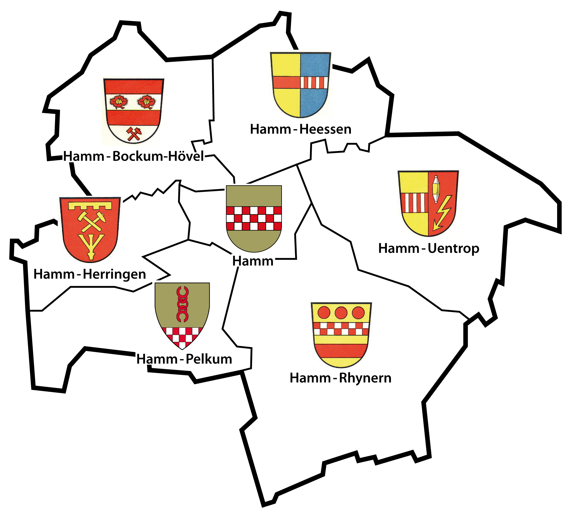 Heraldic map